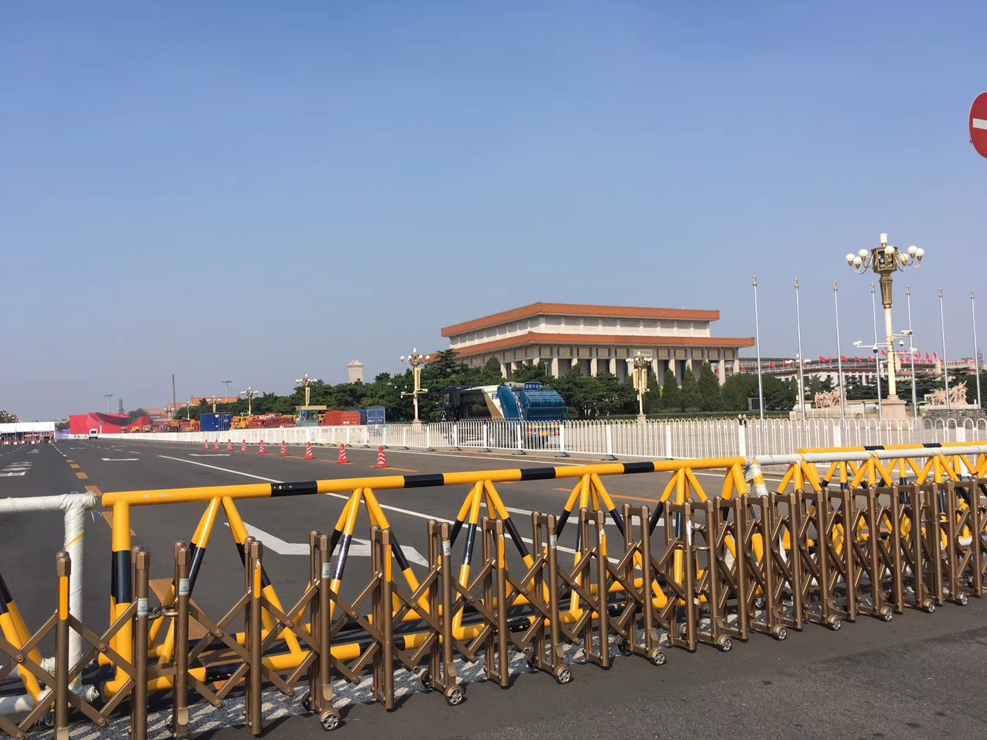 Barricades placed for a dress rehearsal for the 70th anniversary of the People's Republic of China on 22 September 2019.